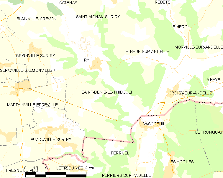 Map of French municipality Saint-Denis-le-Thiboult